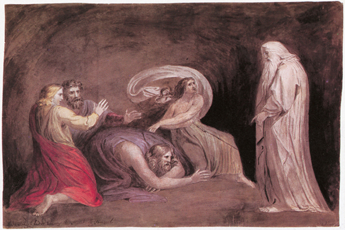 Henry Fuseli, The Spirit of Samuel Appearing to Saul